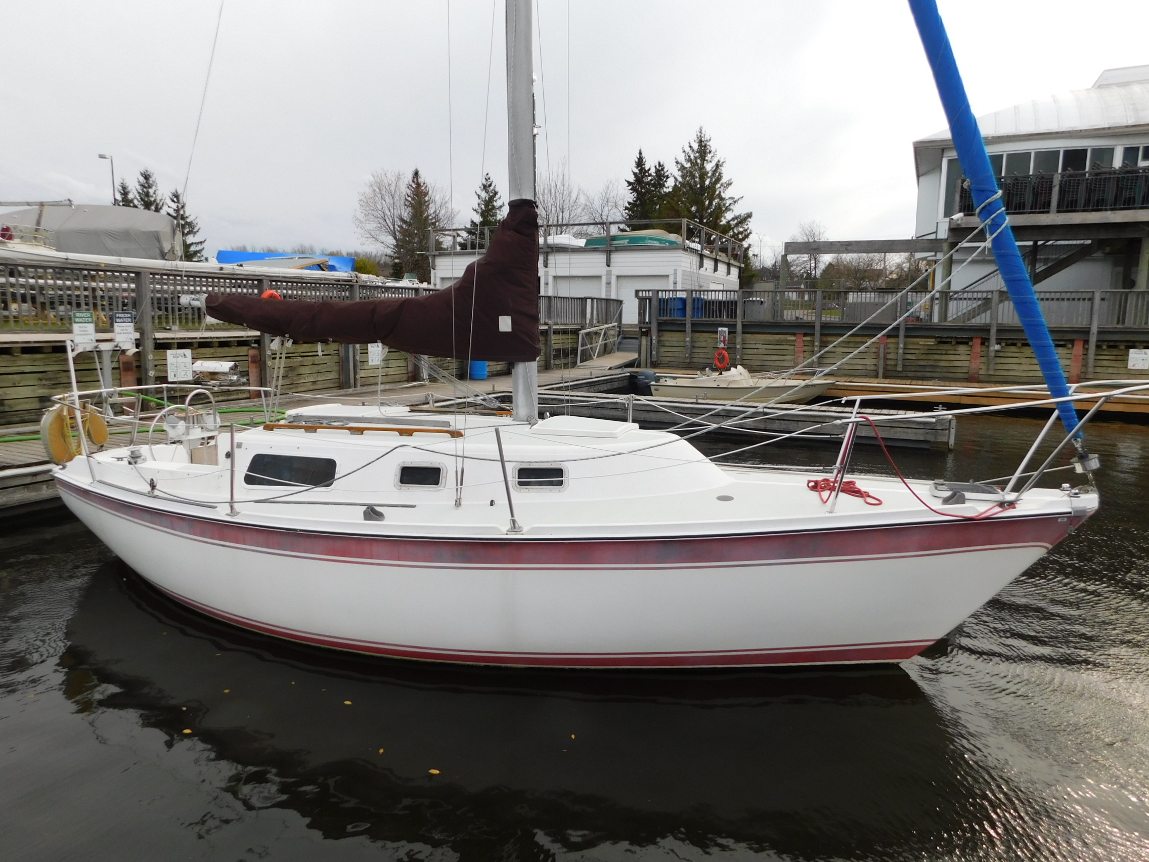 A Cal 2-27 sailboat named Baby Cal.